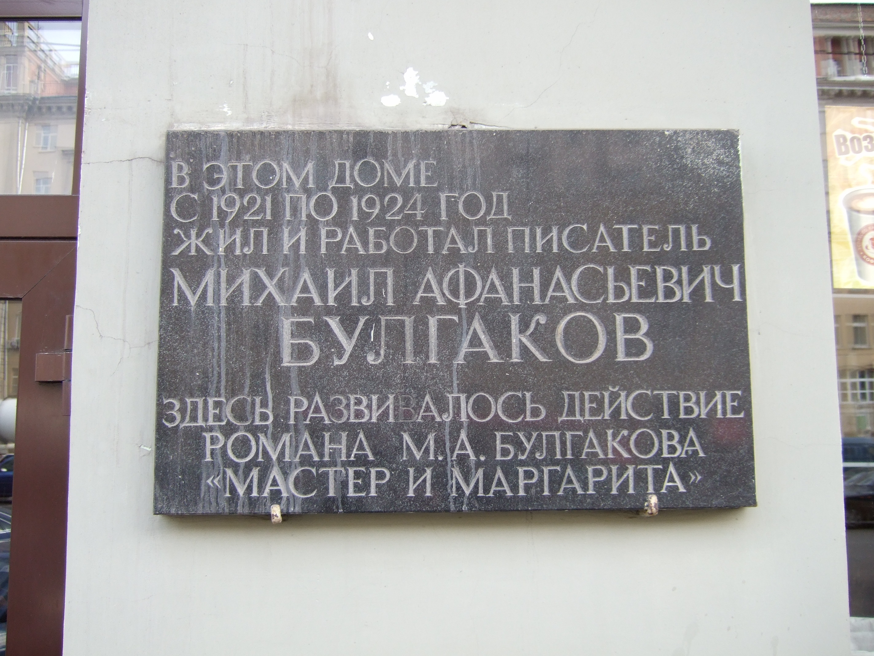 Memorial wall sign in front of the Bulgakov house